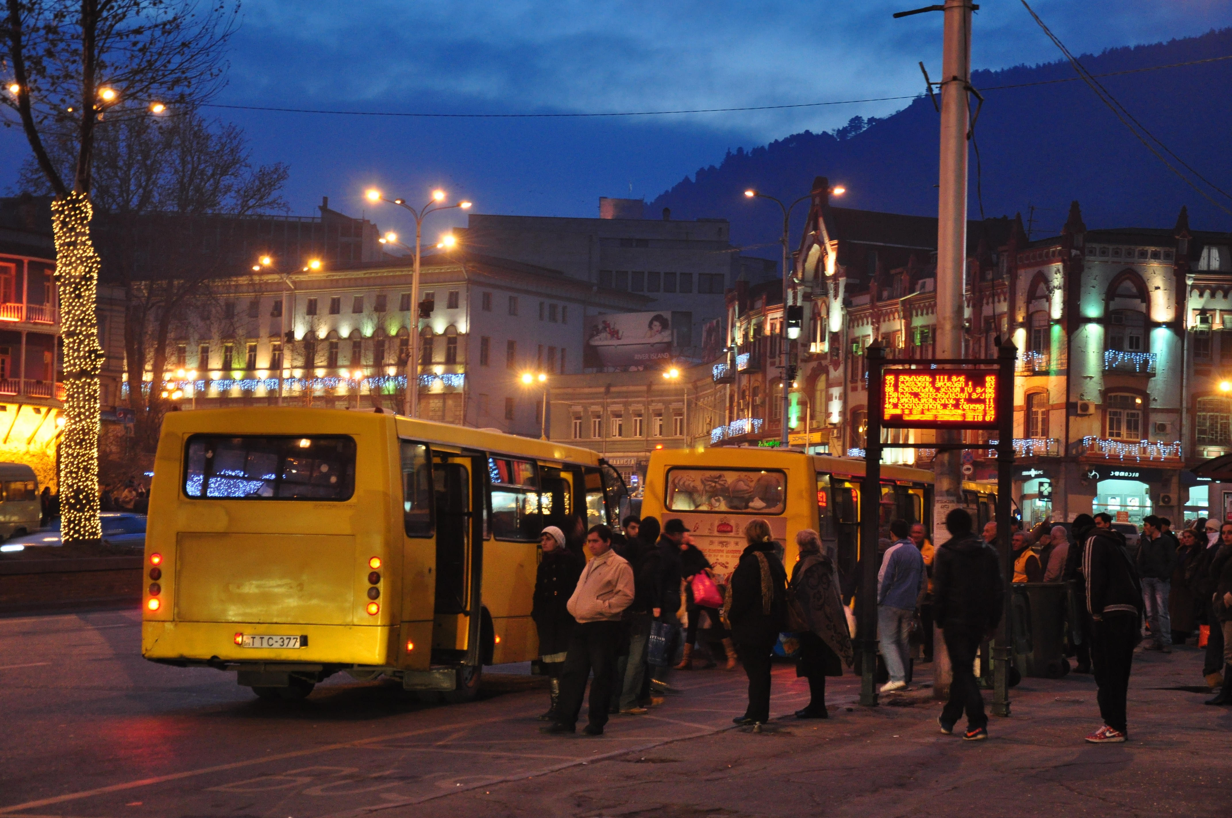 Bus-stop in Baratashvili St., Tbilisi